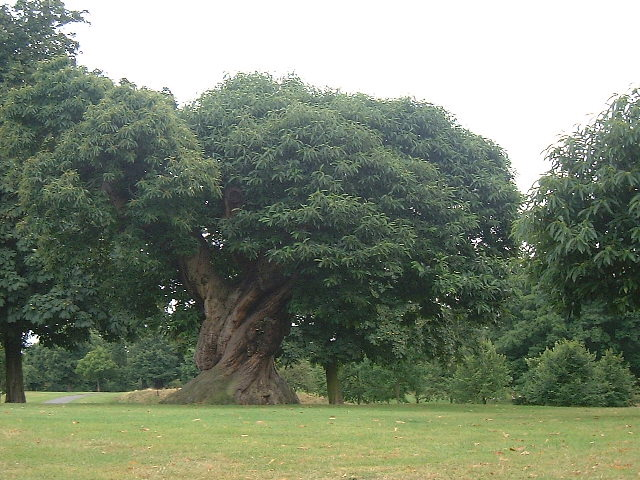 Author: G.Solomon; Source: own photo; Keywords: Greenwich Park Tree London